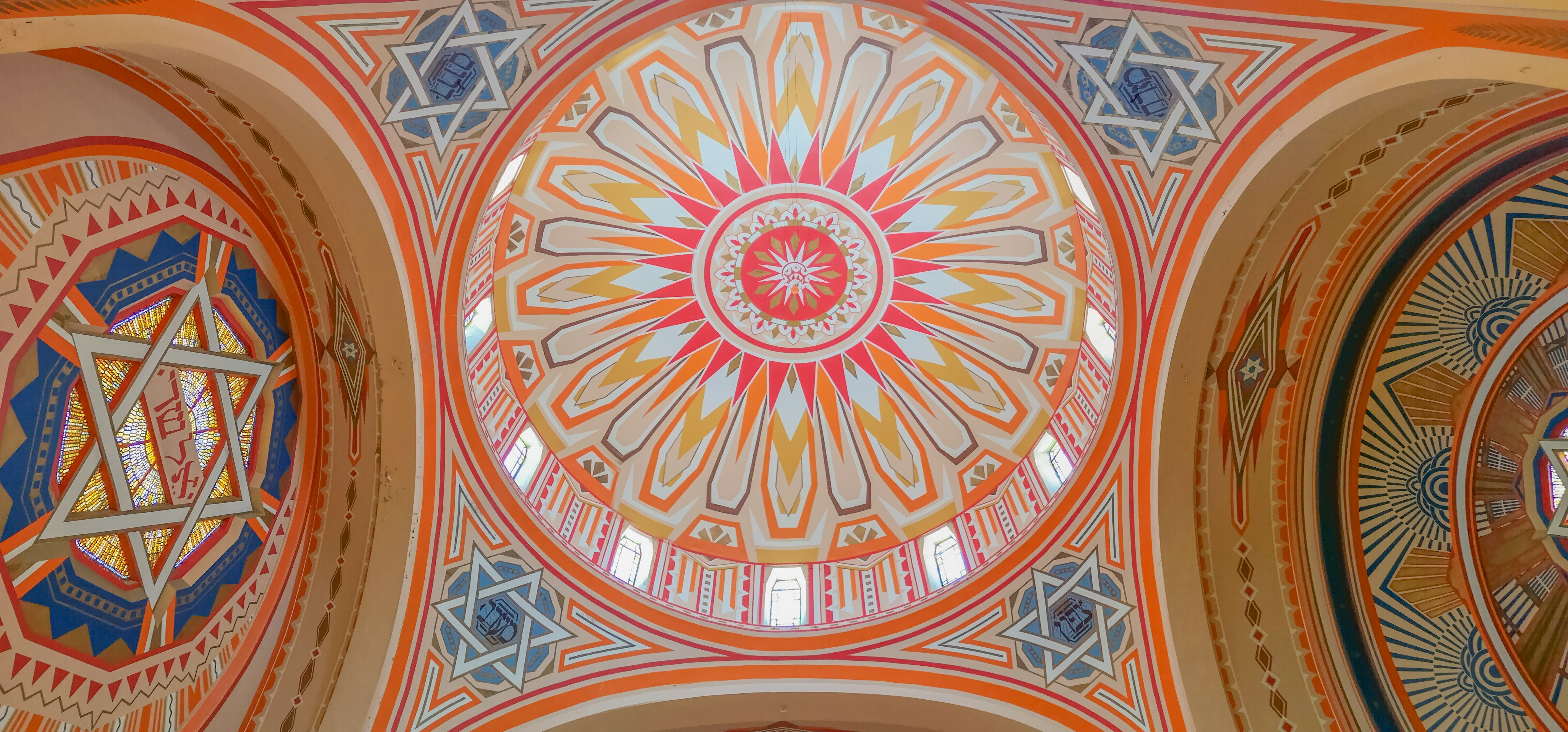 Roof decoration of the synagogue of Tunis.